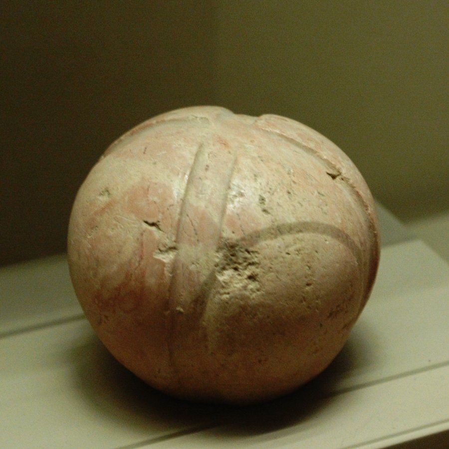 Mace head.